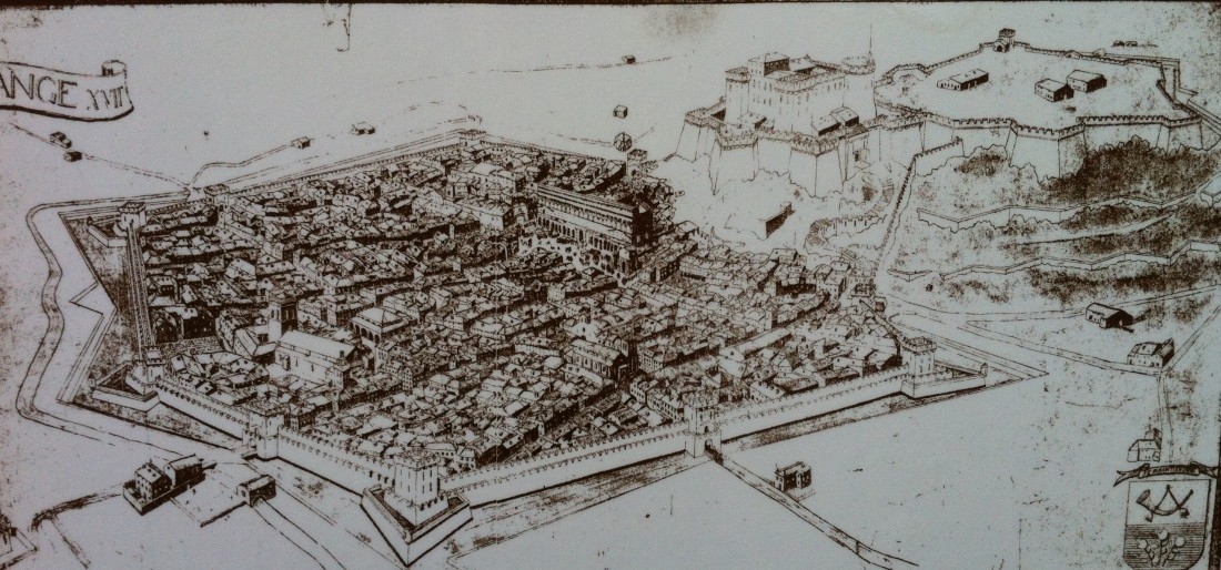 A view of the Saint Eutrope's hill drawn in the XVIIth century by G. Trouillet